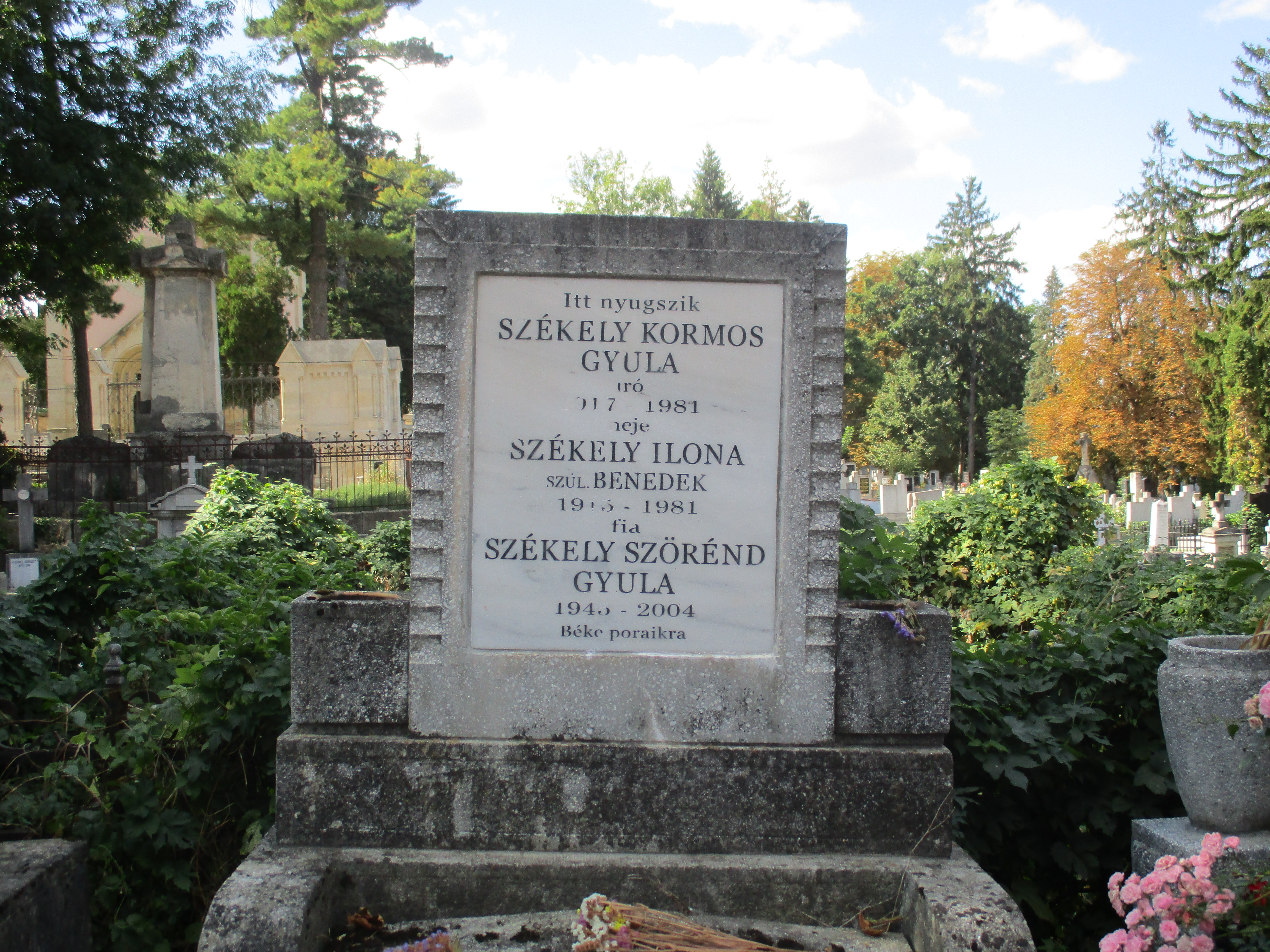 Gyula Székely Kormos (1917–1981) a Hungarian writer from Transylvania